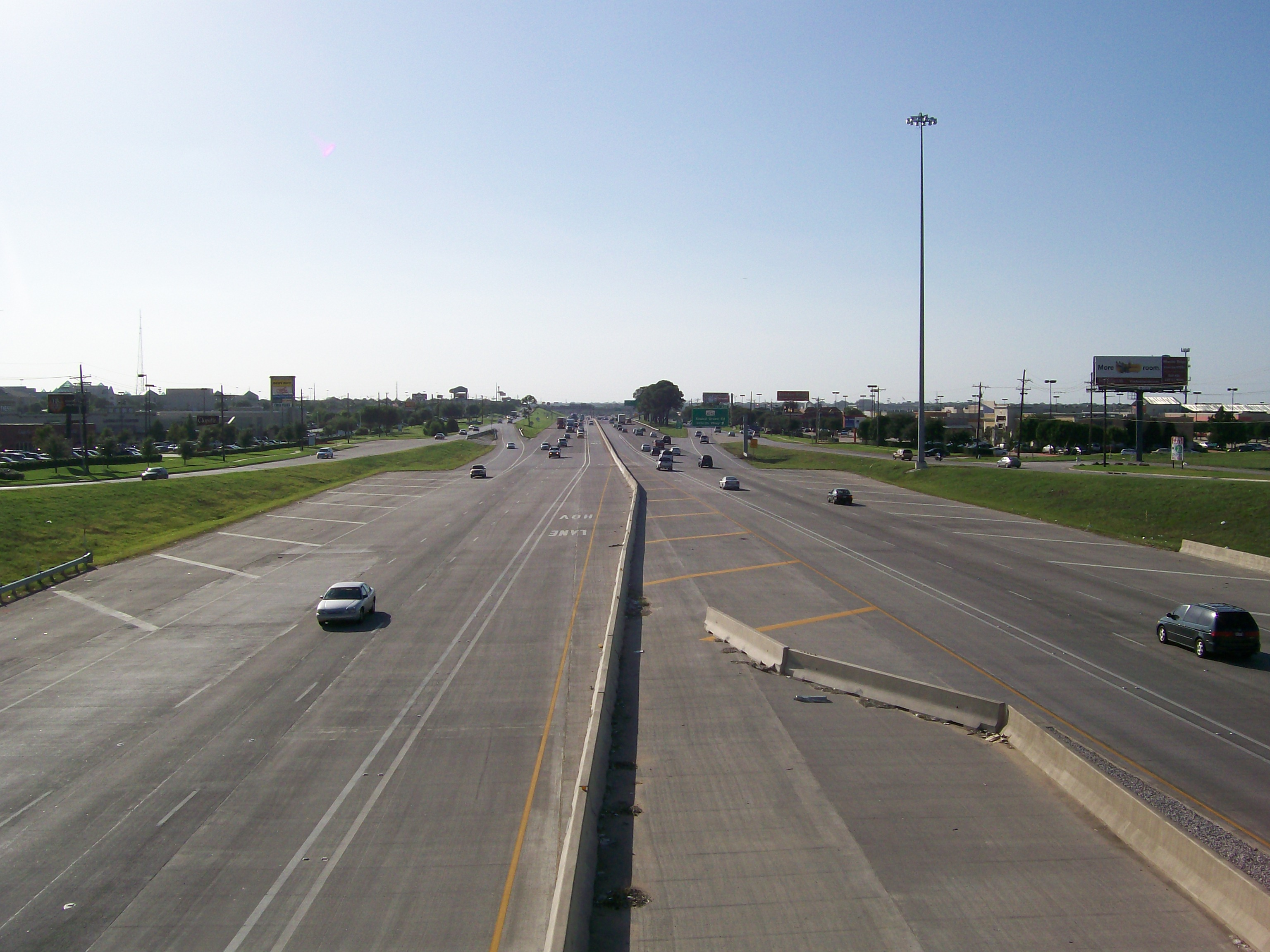 Interstate Highway 35E in Lewisville, Texas looking north from the State Highway 121 Texas-U-Turn overpass.